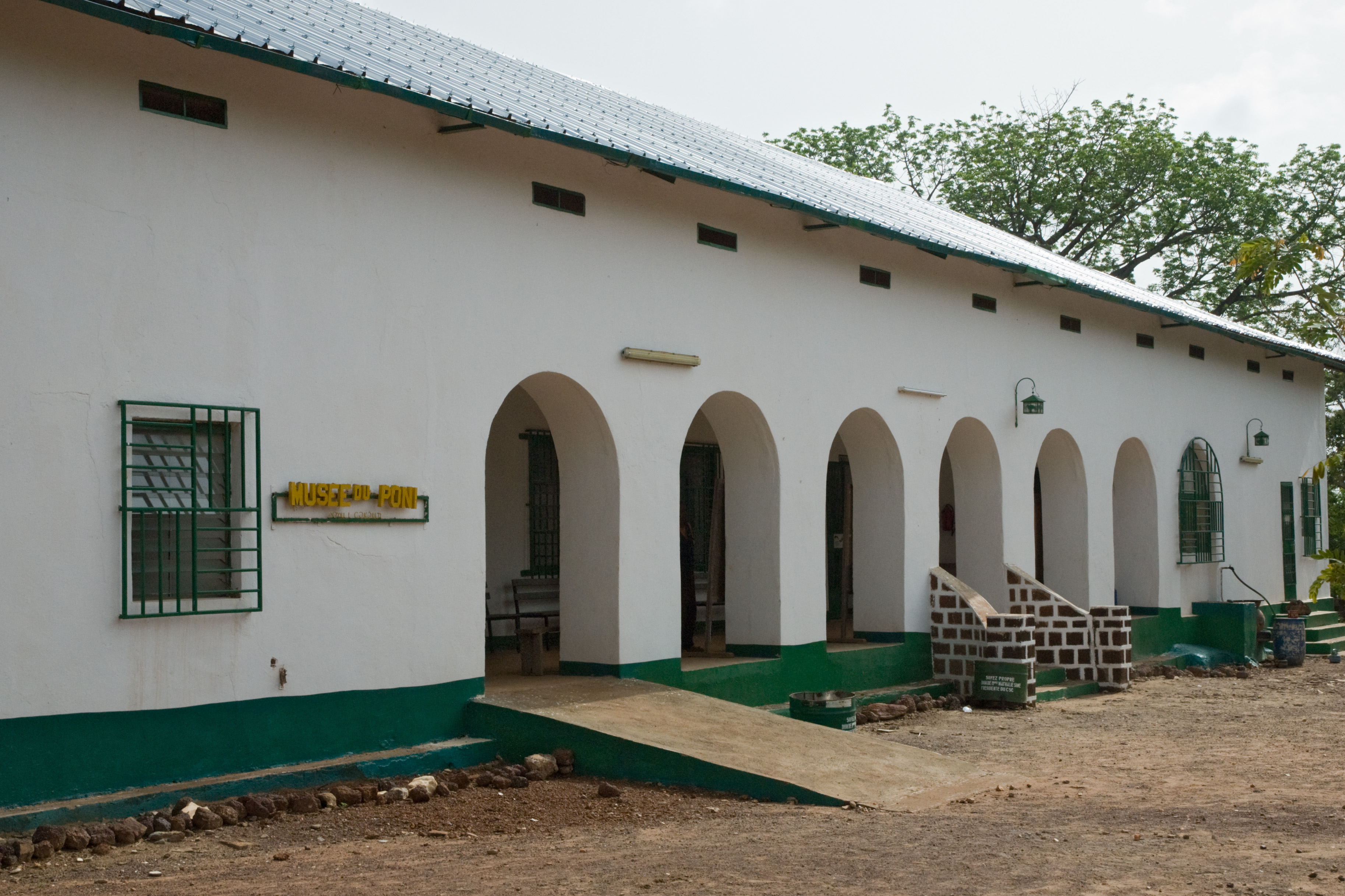 Front of the main building of the Musée du Poni (May 2016)